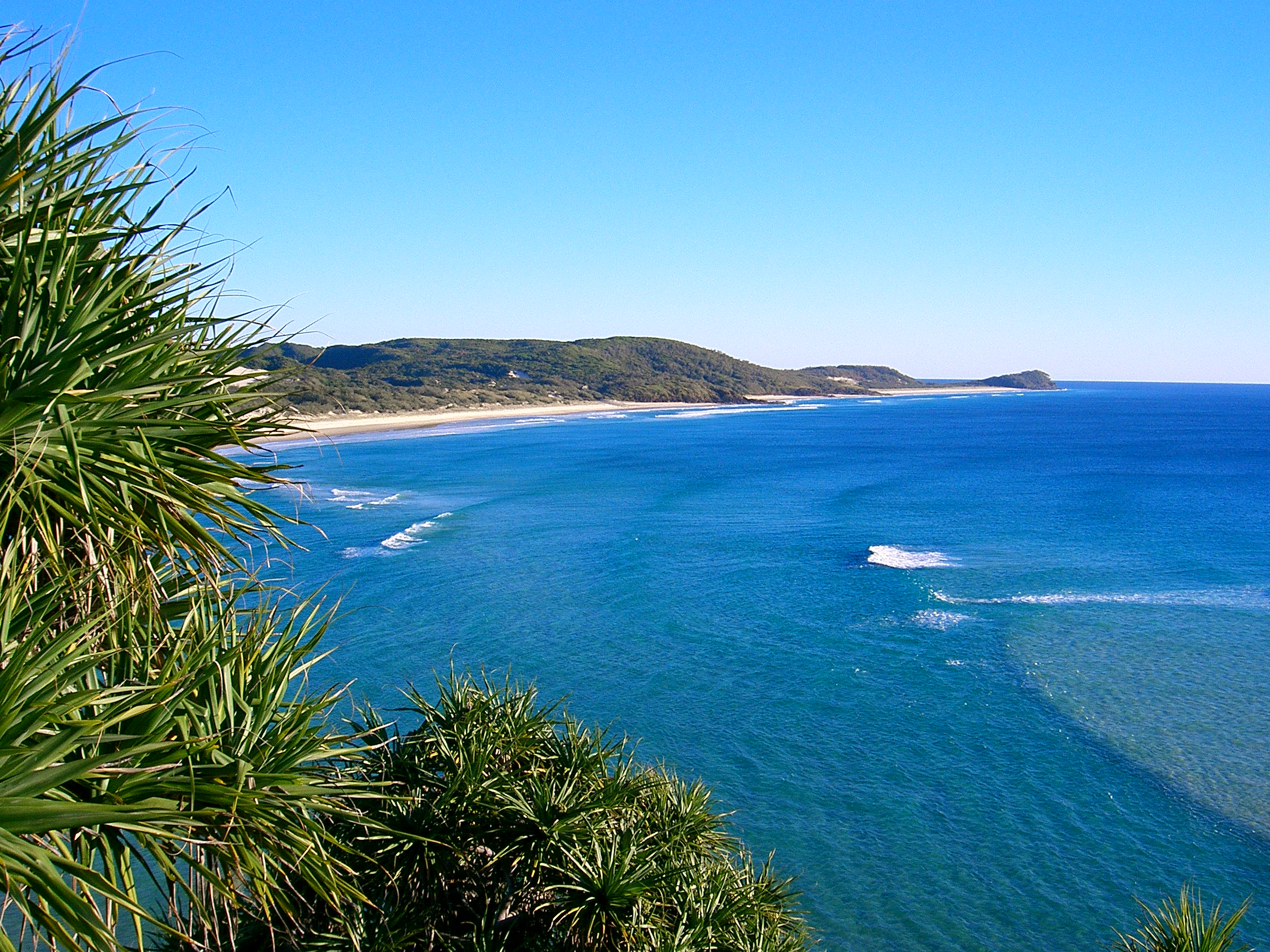 Fraser Island from the Indian Head